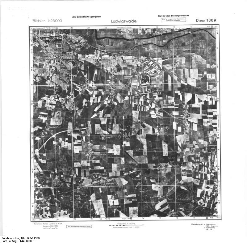 Ludwigswalde Information added by Wikimedia users.